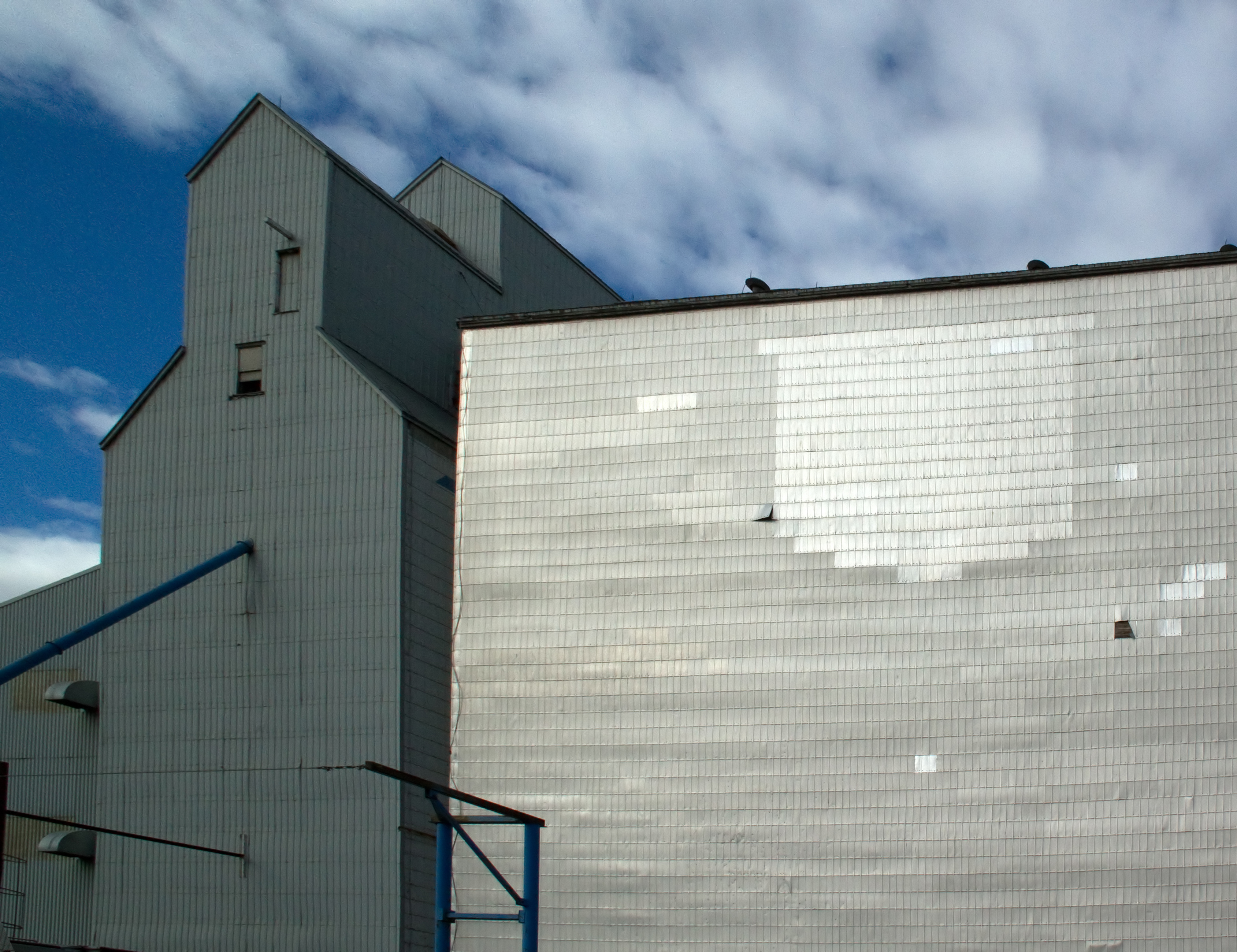 View from the Train